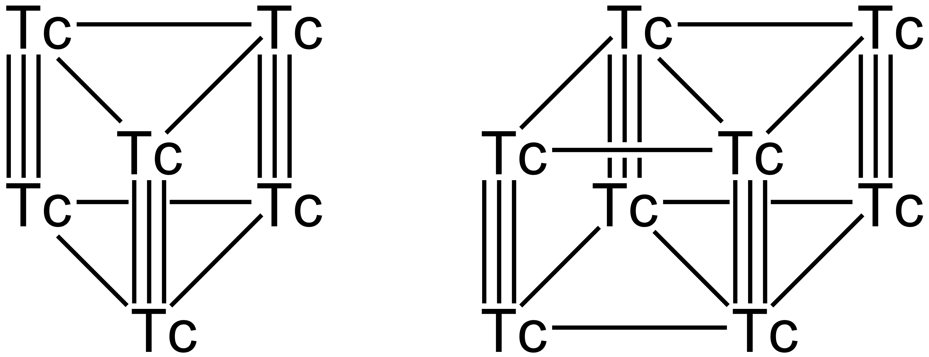 Technetium clusters Tc6 and Tc8